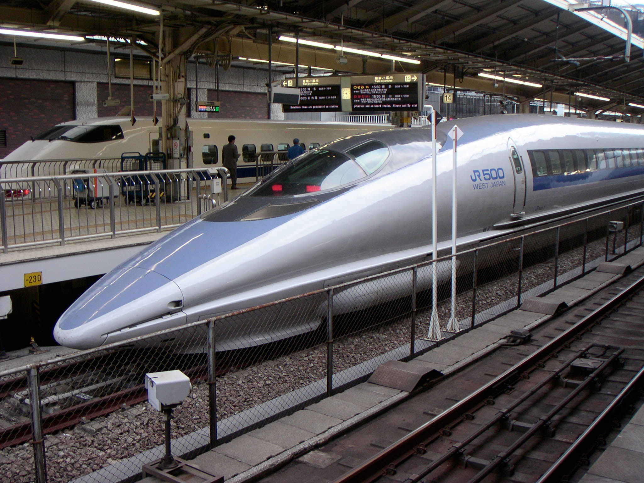 500 series Shinkansen train at Tokyo Station